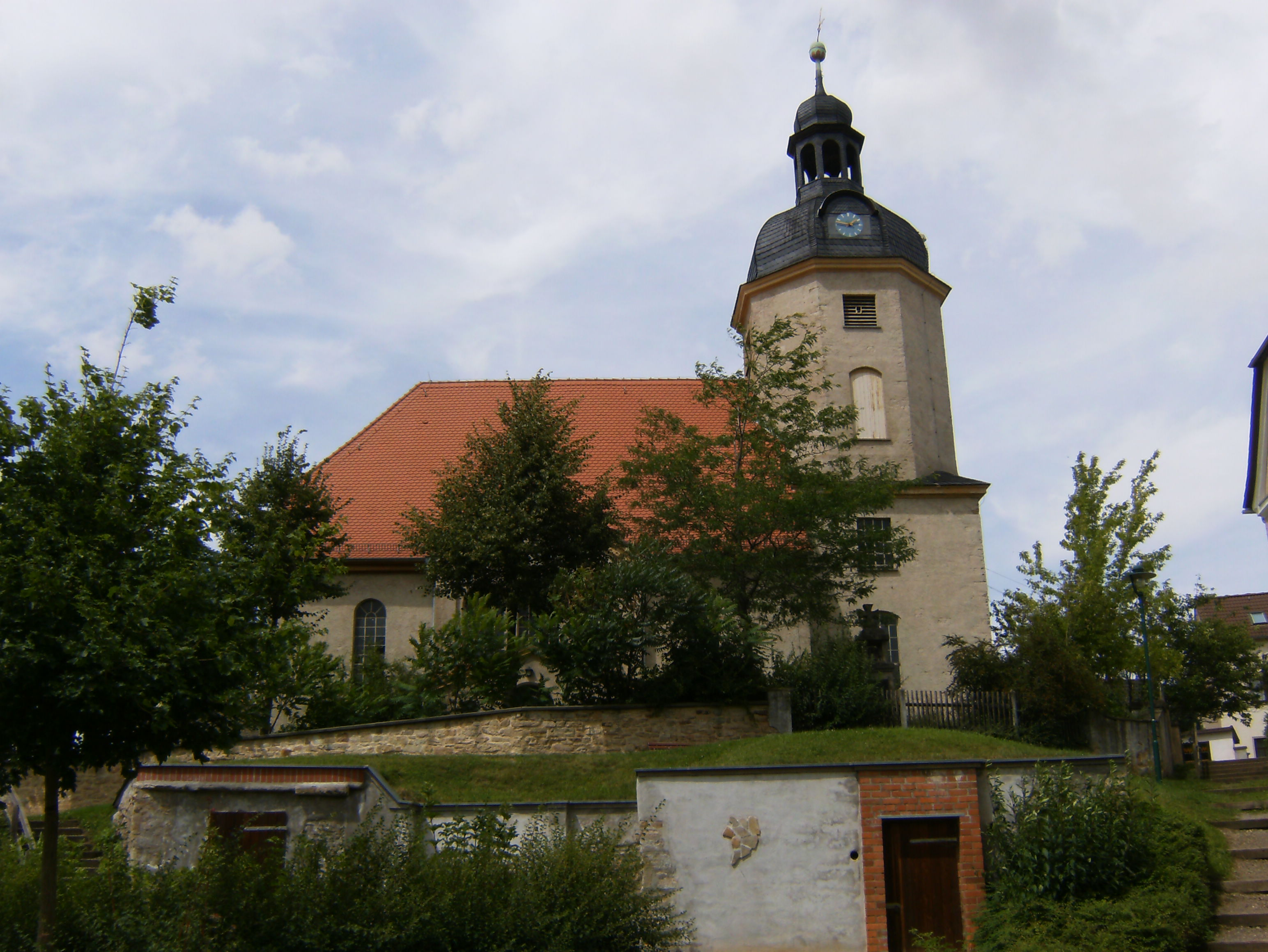 Gera Roepsen, village church.